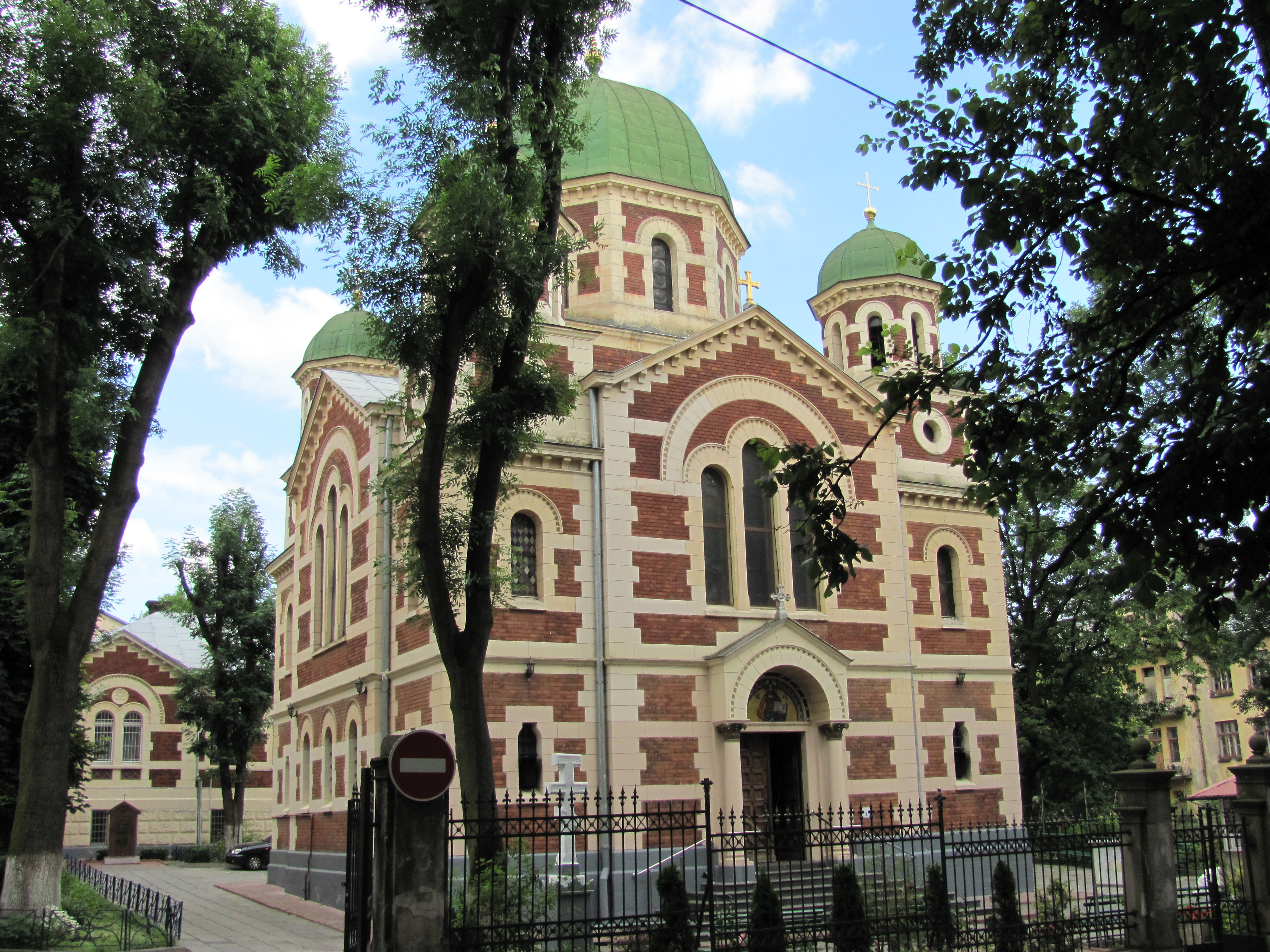 L'viv Orthodox Church of Moscow Patriarchate, 3, Korolenko str., Church of Saint George